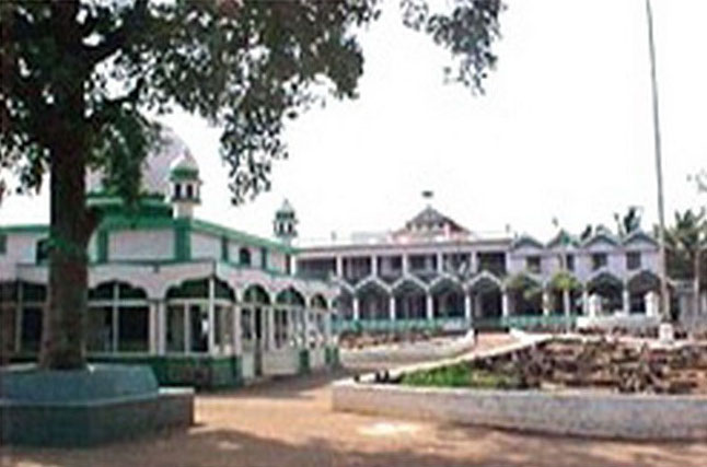 Nellikunnu Muhyaddin Juma Masjid Kasargod